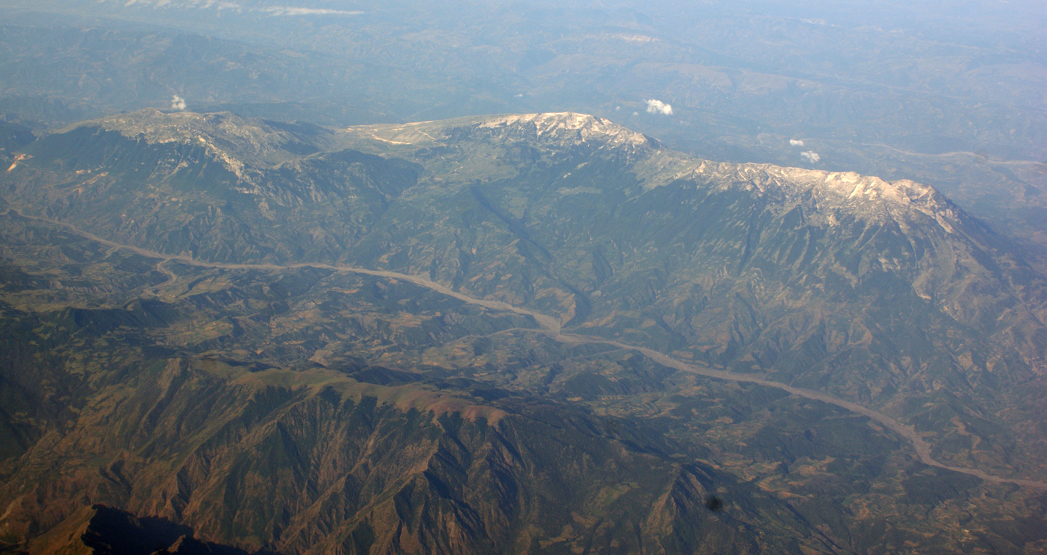 Tomorr Montain in Southern Albania, Eastern side with River Tomorrica in front